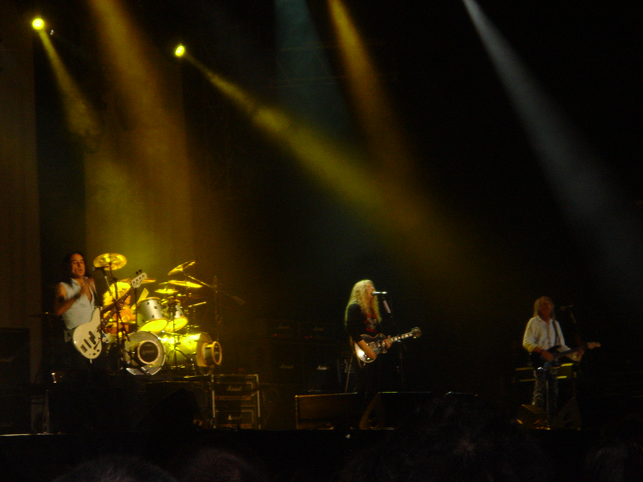 Thin Lizzy on stage as opening act for Deep Purple, Rapture of the Deep tour, NEC, Birmingham.